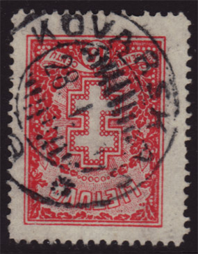 Warrior's Cross (Vytis) Issue 15 centas Michel No. 291, Scott No. 240 Issue date: January, 1930 Designer: Bernardas Bučas Printing process: Lithoraphic Quantity: unknown Watermarks: no watermarks Perforation: 14 1/4 Canceled Circular date stamp of Kovarskas (now Kavarskas) town.